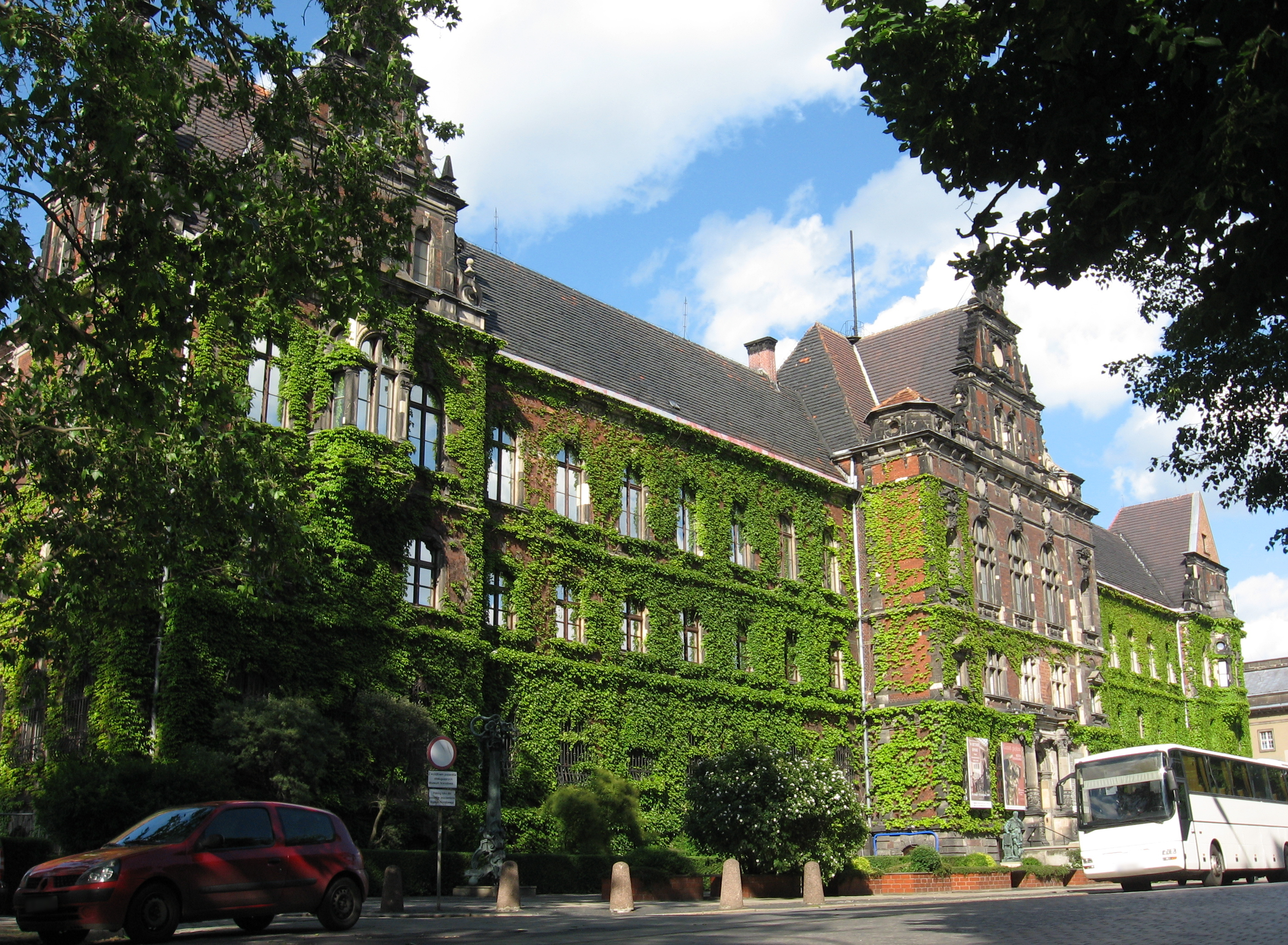 National Museum in Wrocław.